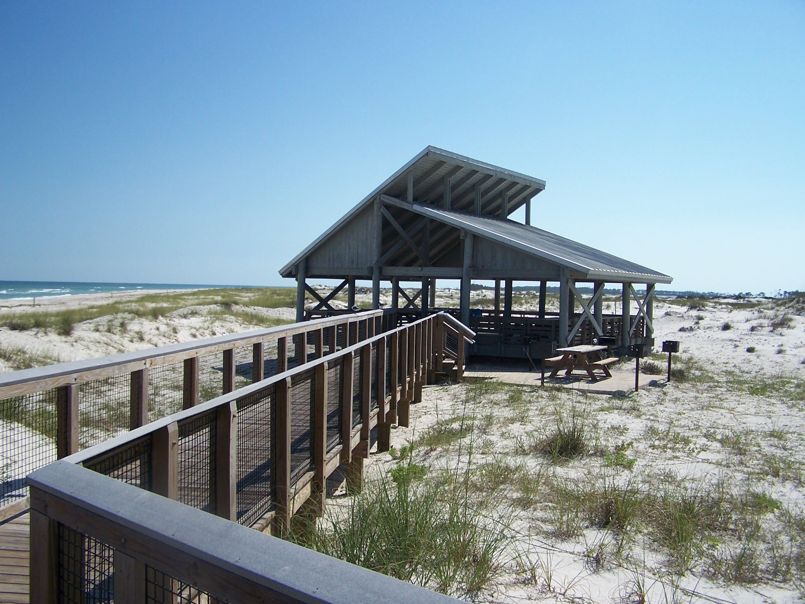 Picknickshelter at St. George Island State Park, Franklin County, Florida